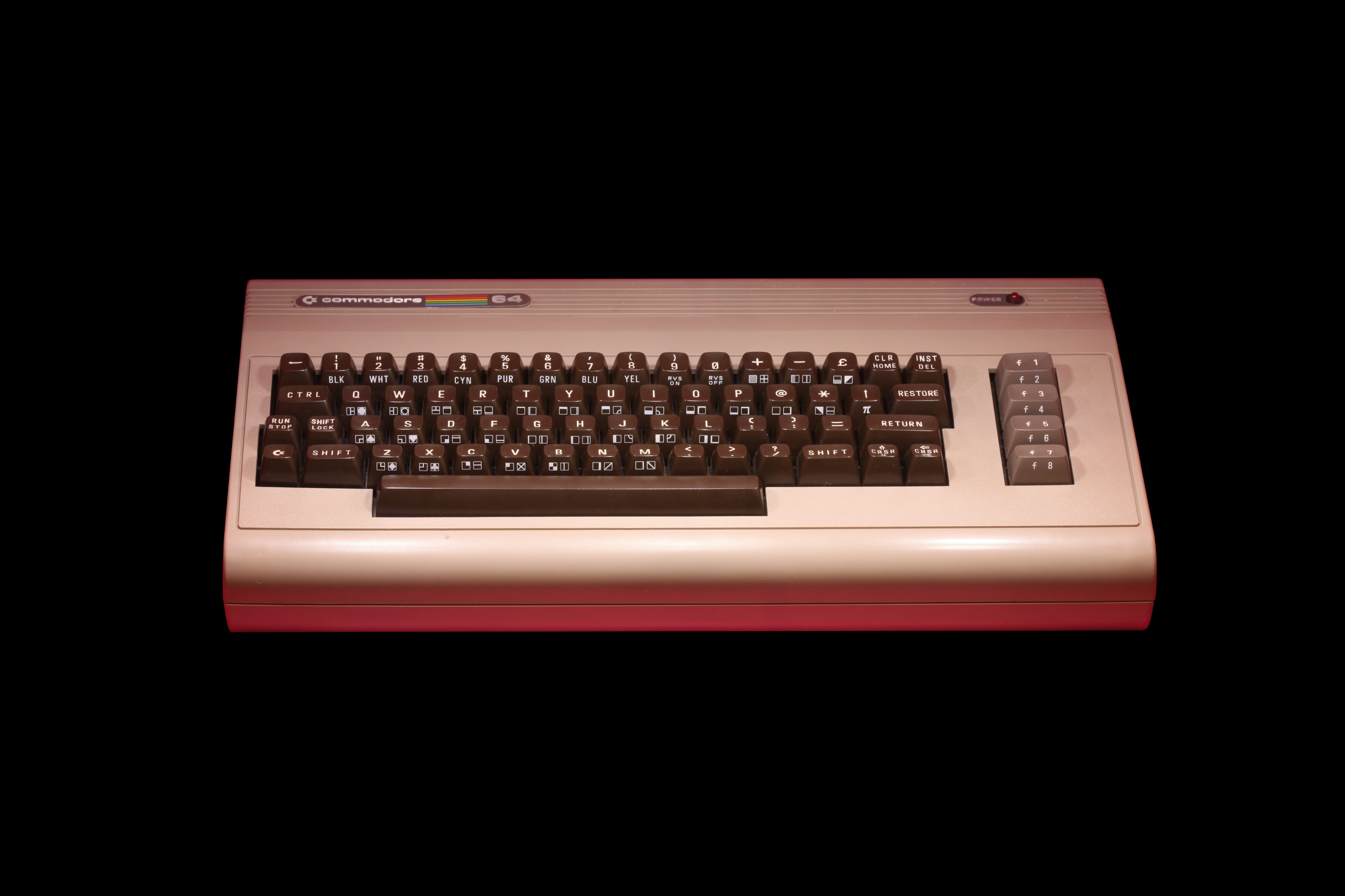 Commodore 64 On display at the Musée Bolo, EPFL, Lausanne. The making of this document was supported by Wikimedia CH. (Submit your project!) For all the files concerned, please see the category Supported by Wikimedia CH.